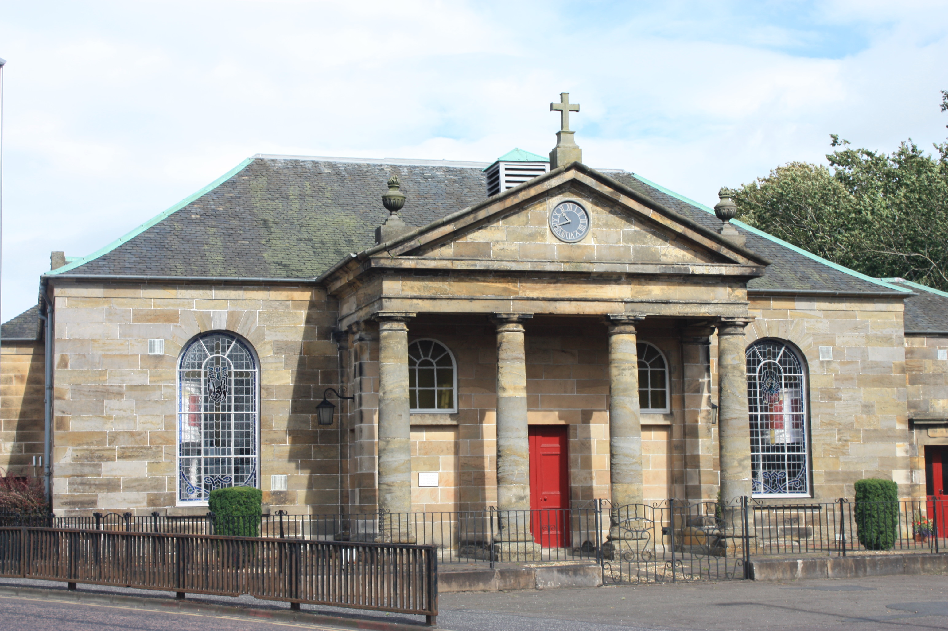 St Mungo's Church, High Street, Penicuik, Midlothian, seen from the west